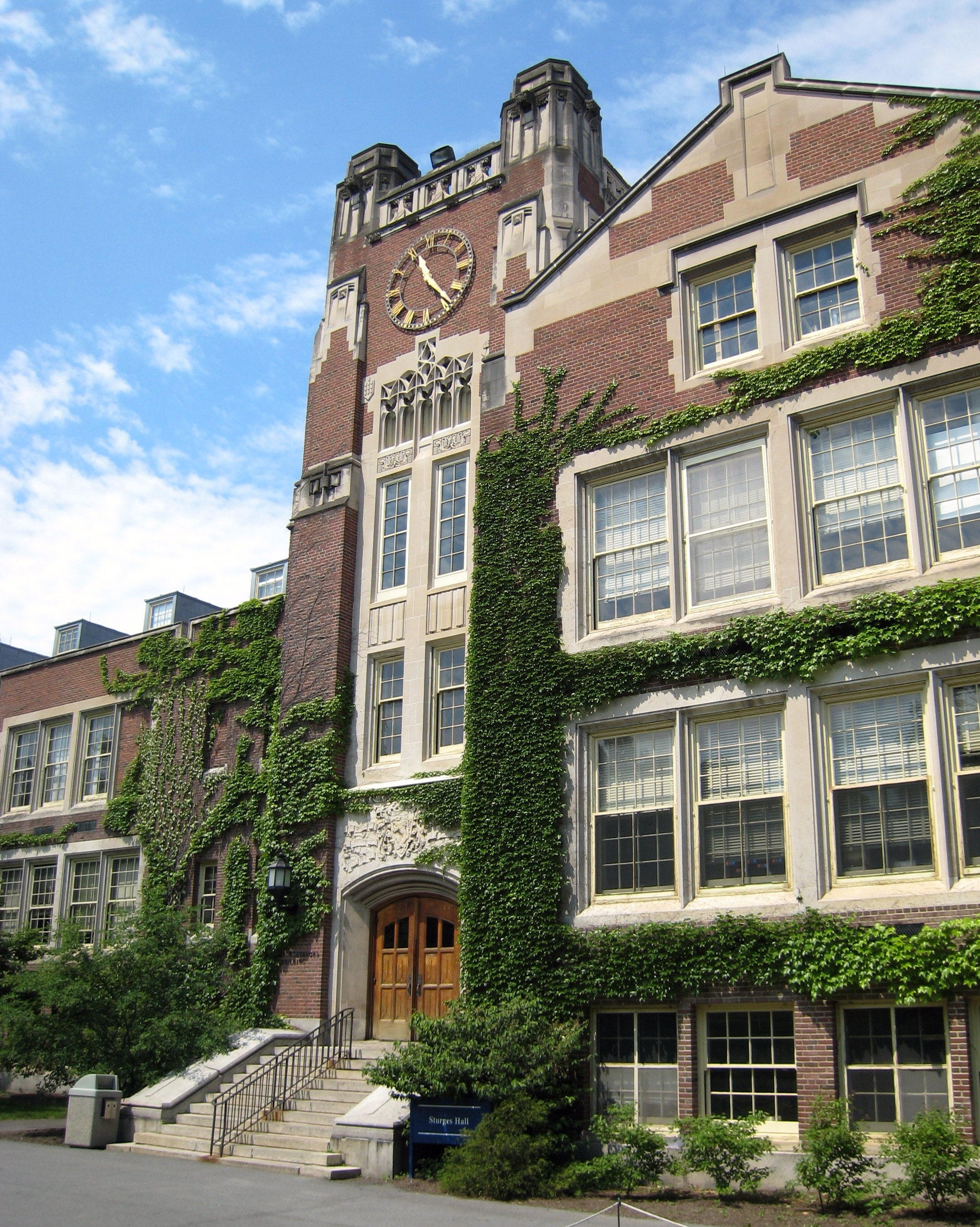 Sturges Hall at SUNY Geneseo. The photographer intends to take a higher-quality version of this photograph in the future. The changes that will be made are as follows: Fix sharp perspective